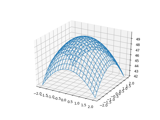 Mesh Grid -Surface of Paraboloid